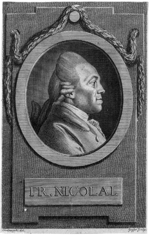 Portrait of Friedrich Nicolai (1733-1811), German writer